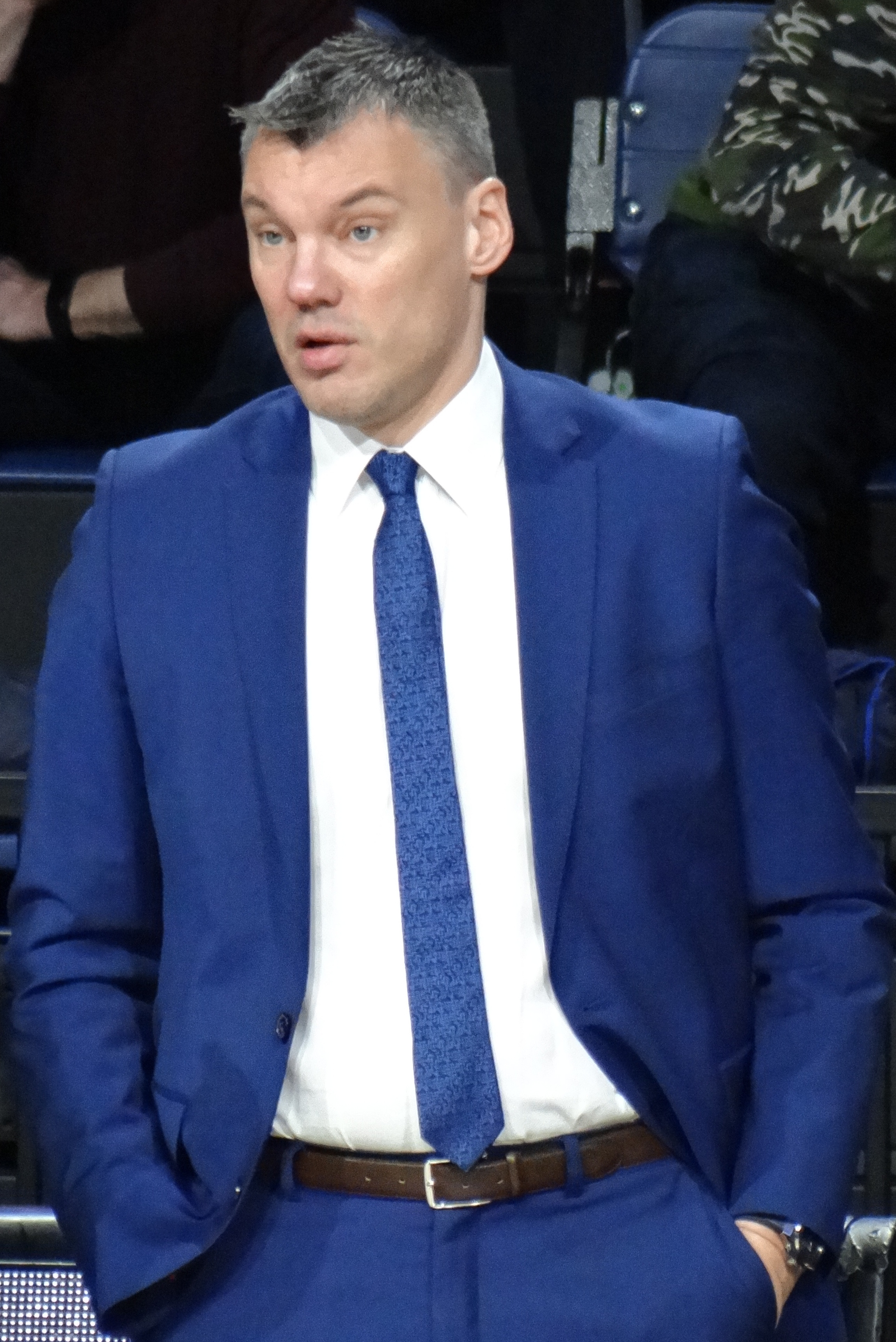 Šarūnas Jasikevičius BC Žalgiris EuroLeague 20180223